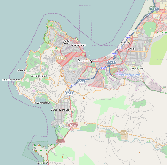 This map of Monterey Peninsula was created from OpenStreetMap project data, collected by the community. This map may be incomplete, and may contain errors. Don't rely solely on it for navigation. Border coordinates36.6563-121.992←↕→-121.801136.5044